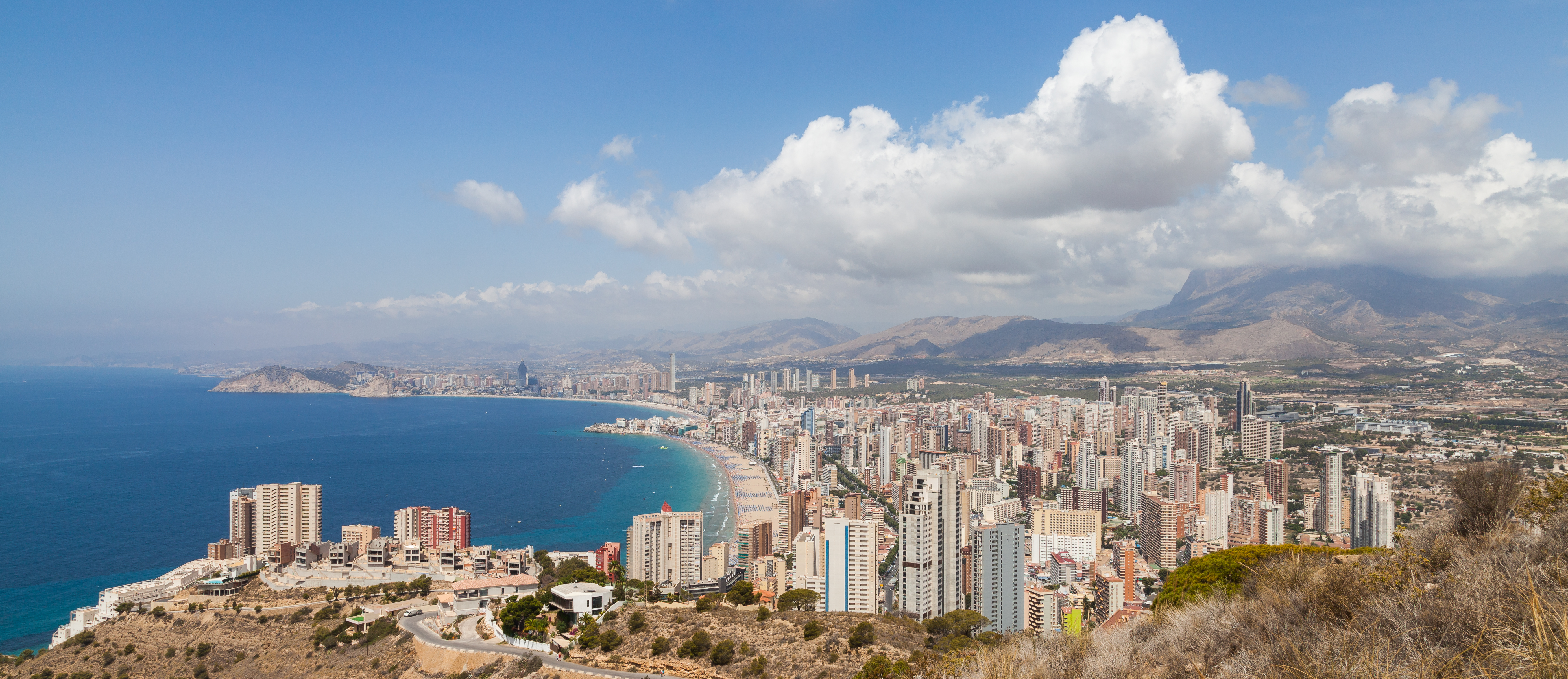 View of Benidorm, turistic capital of the Costa Blanca (literally White Coast) in Land of Valencia, Spain. The shot was taken from the Cross of Benidorm, located on the summit of the Sierra Helada. Benidorm, is a town with 73,000 inhabitants throughout the year but with a peak of over half a million in the summer season. It's the third town with the most concentration of tall buildings in Europe, after London and Milan, whereas in Spain, Benidorm is positioned third, behind Barcelona and Madrid in the total number of skyscrapers. Nevertheless, Benidorm has the most high-rise buildings per capita in the world.